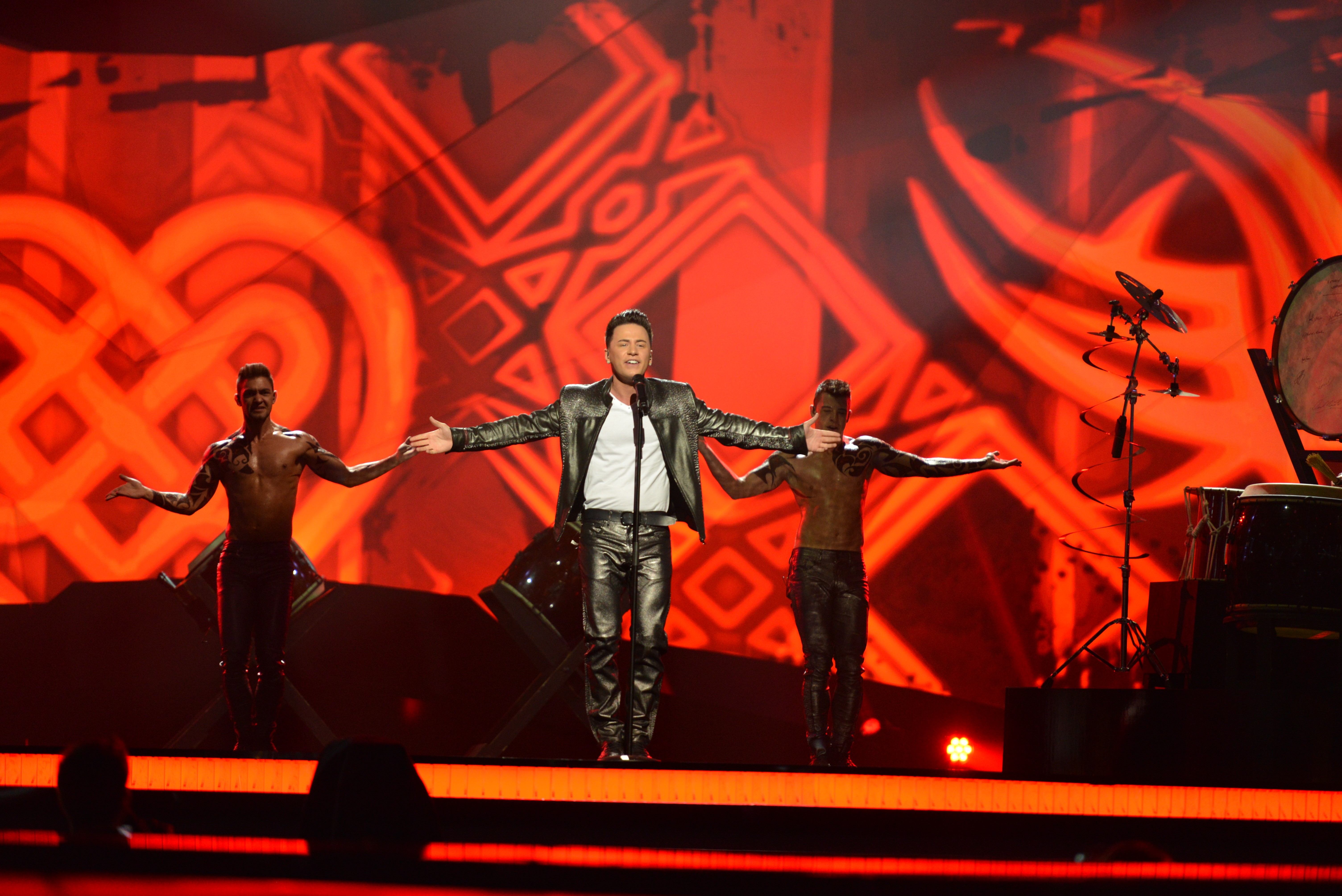 Ryan Dolan representing Ireland with the song "Only Love Survives" during the first dress rehearsal of the first semi final of the Eurovision Song Contest 2013 in Malmö. (Help translate this text)